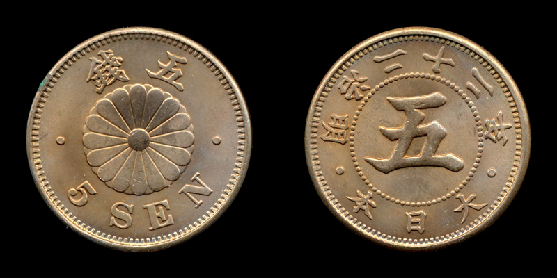 5sen-M22